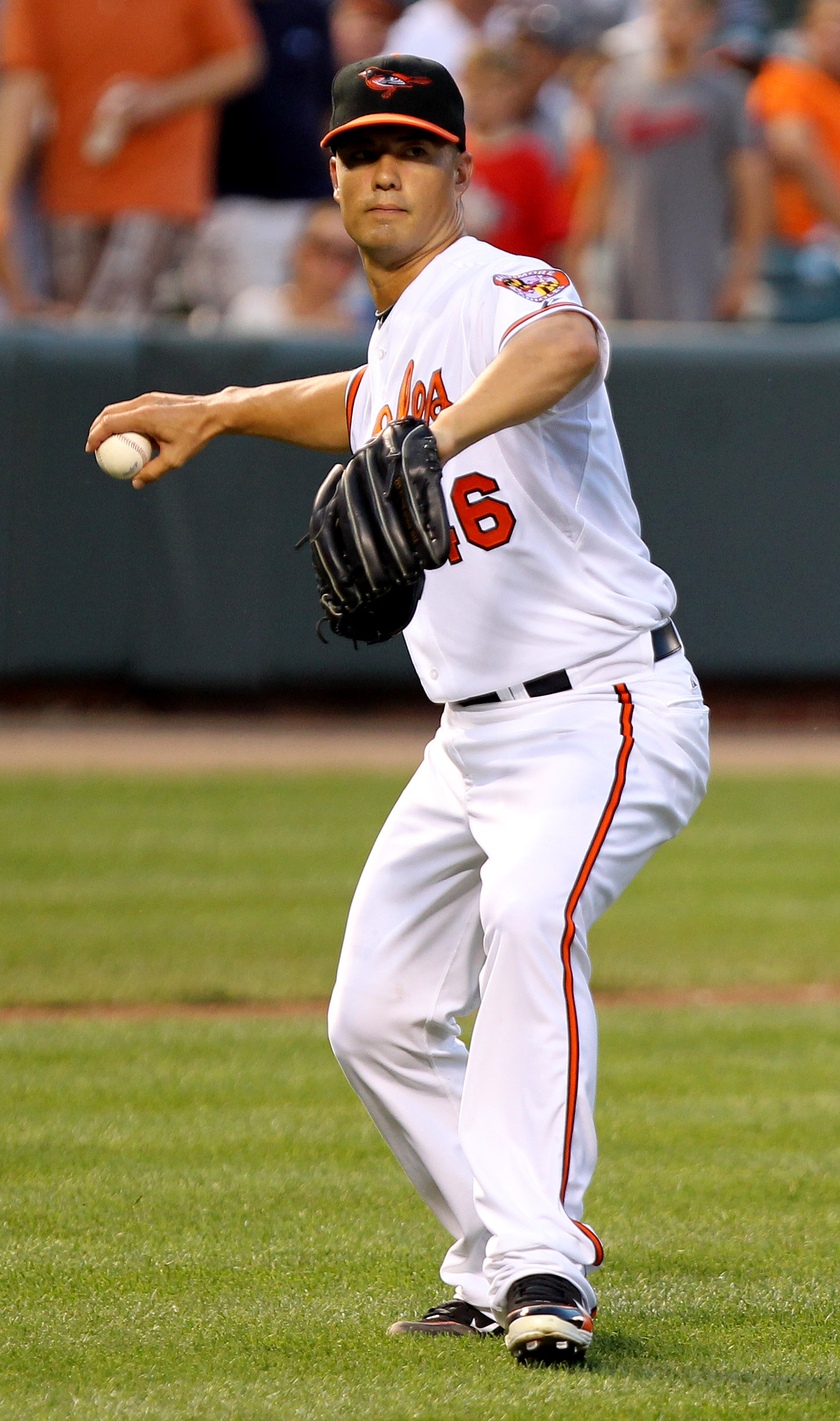 Jeremy Guthrie